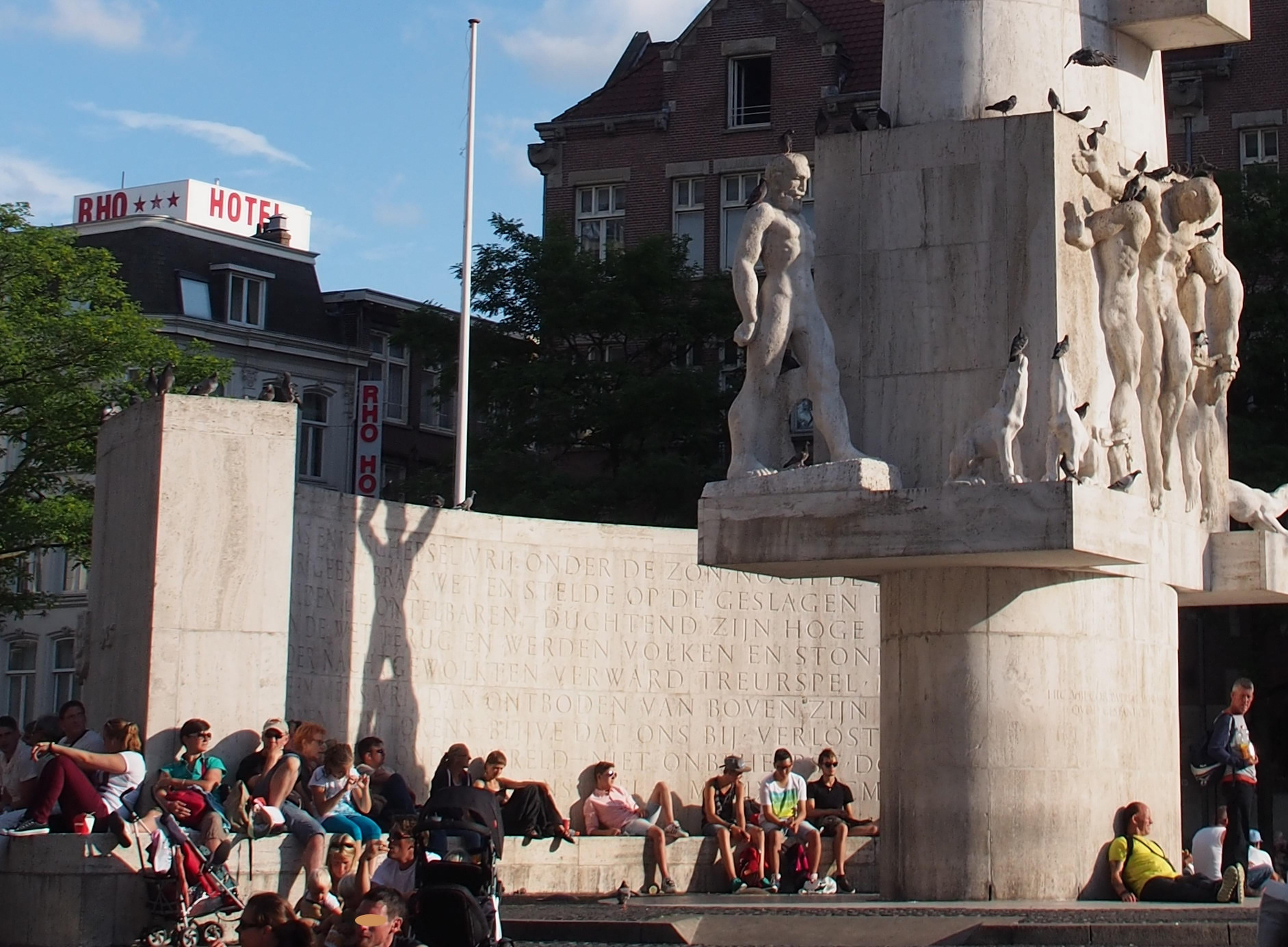 Nationaal Monument at the Dam (Amsterdam). Poem by Adriaan Roland Holst